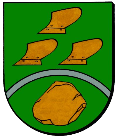 Coat of Arms of Tosterglope